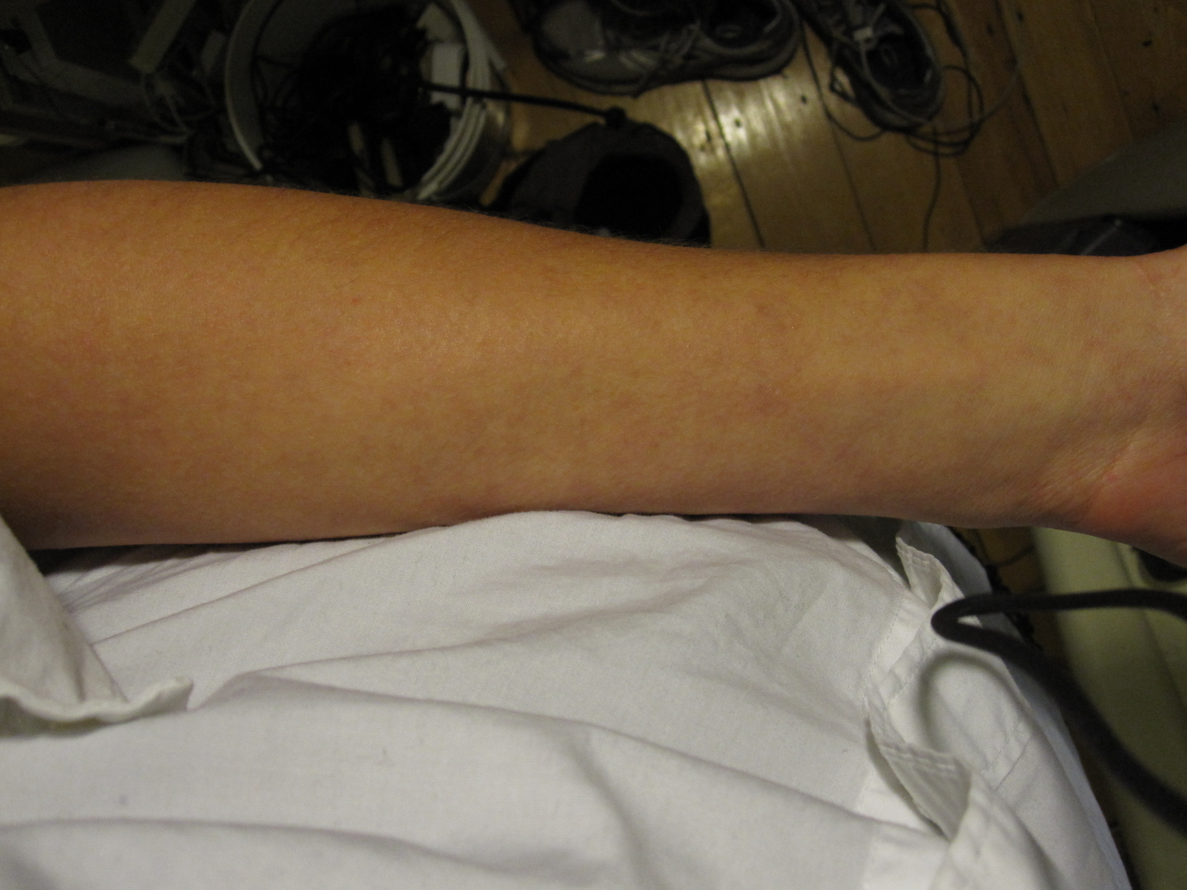 Rash from dengue fever I got in India. Diagnosis was confirmed by later IgG ELISA testing.